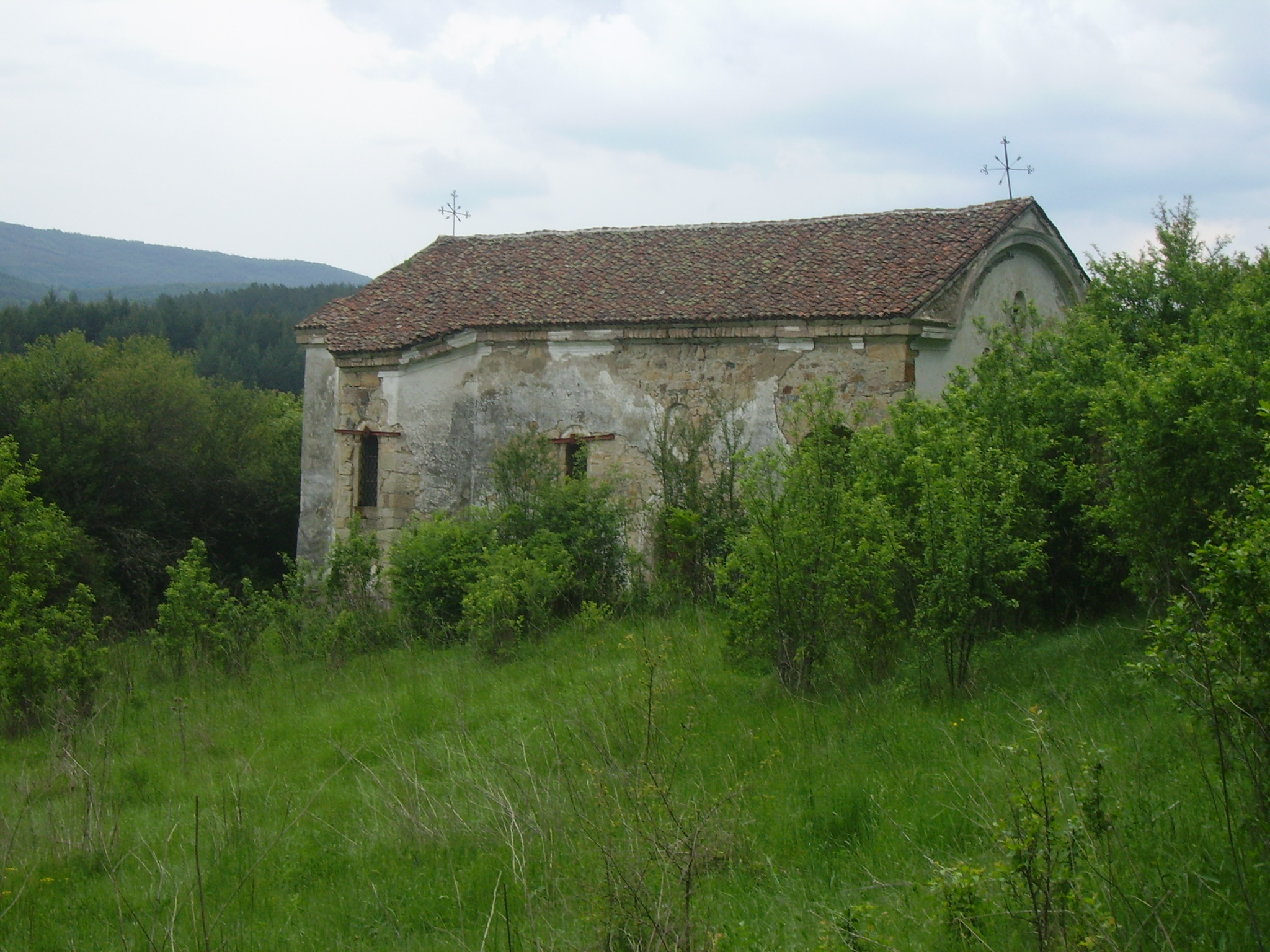 Church "Saint Iliya", village Gorochevtsi, Bulgaria